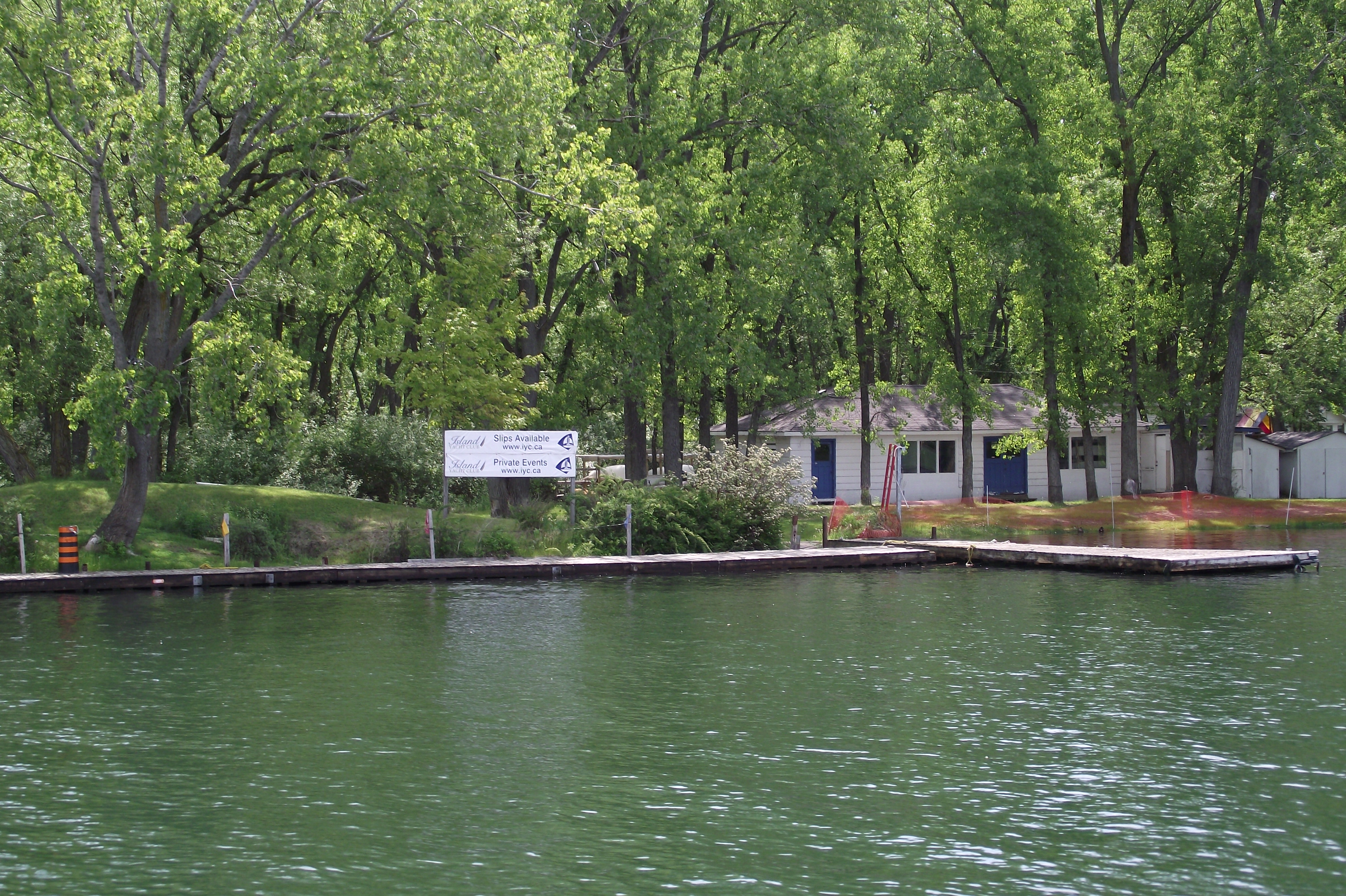 View of Island Yacht Club from the tender. Toronto, Ontario, Canada.